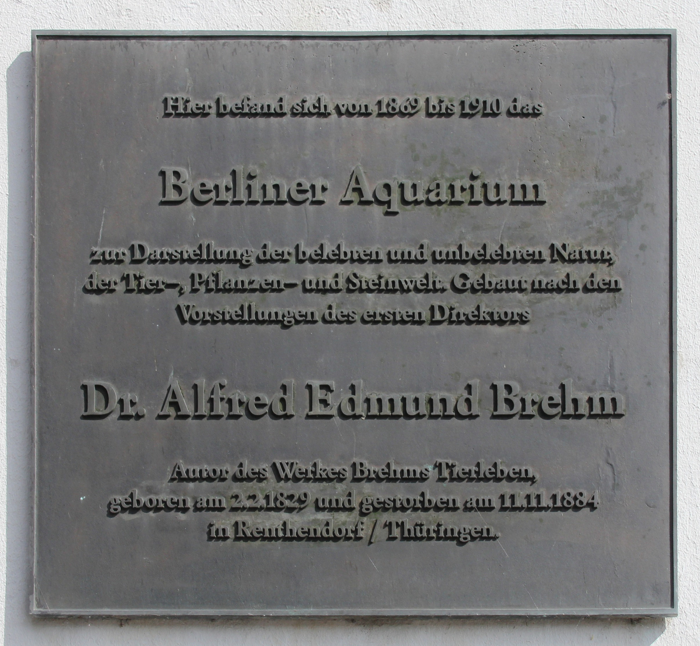 Memorial plaque, Alfred Edmund Brehm, Unter den Linden 62, Berlin-Mitte, Deutschland